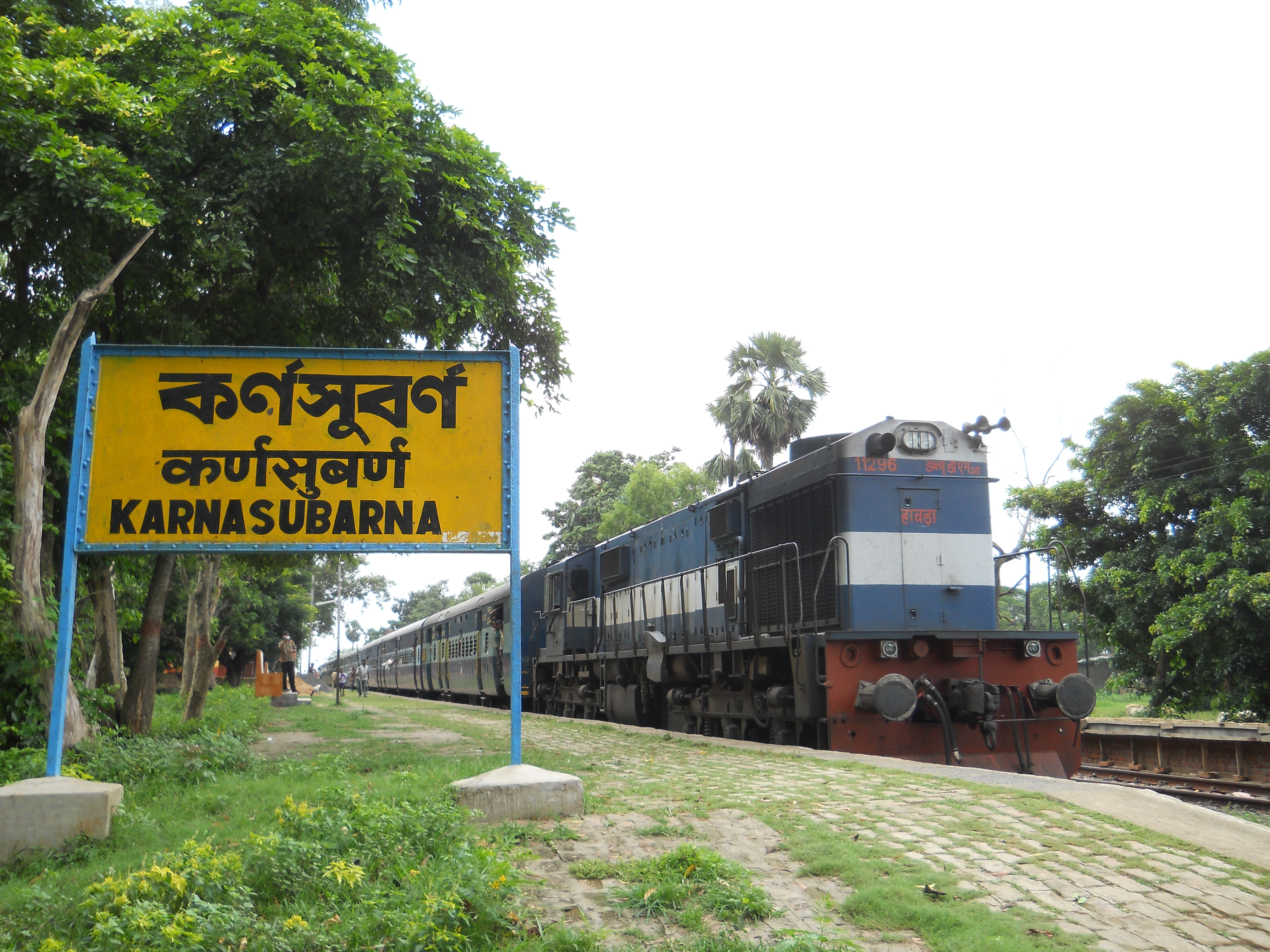 Karnasubarna Railway Station, Murshidabad, West Bengal